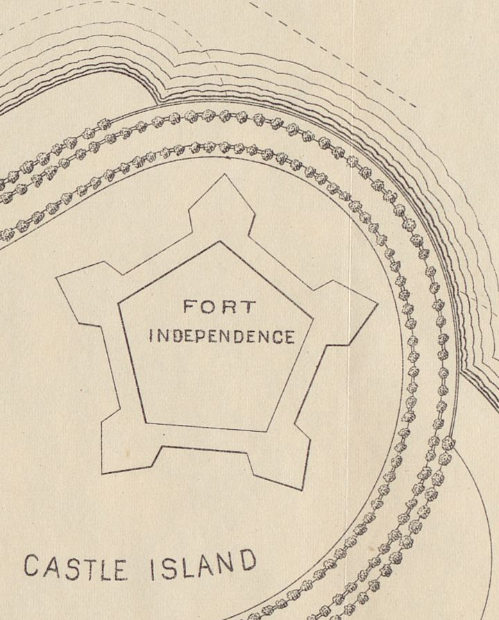 An 1883 Olmsted study of a plan for Pleasure Bay